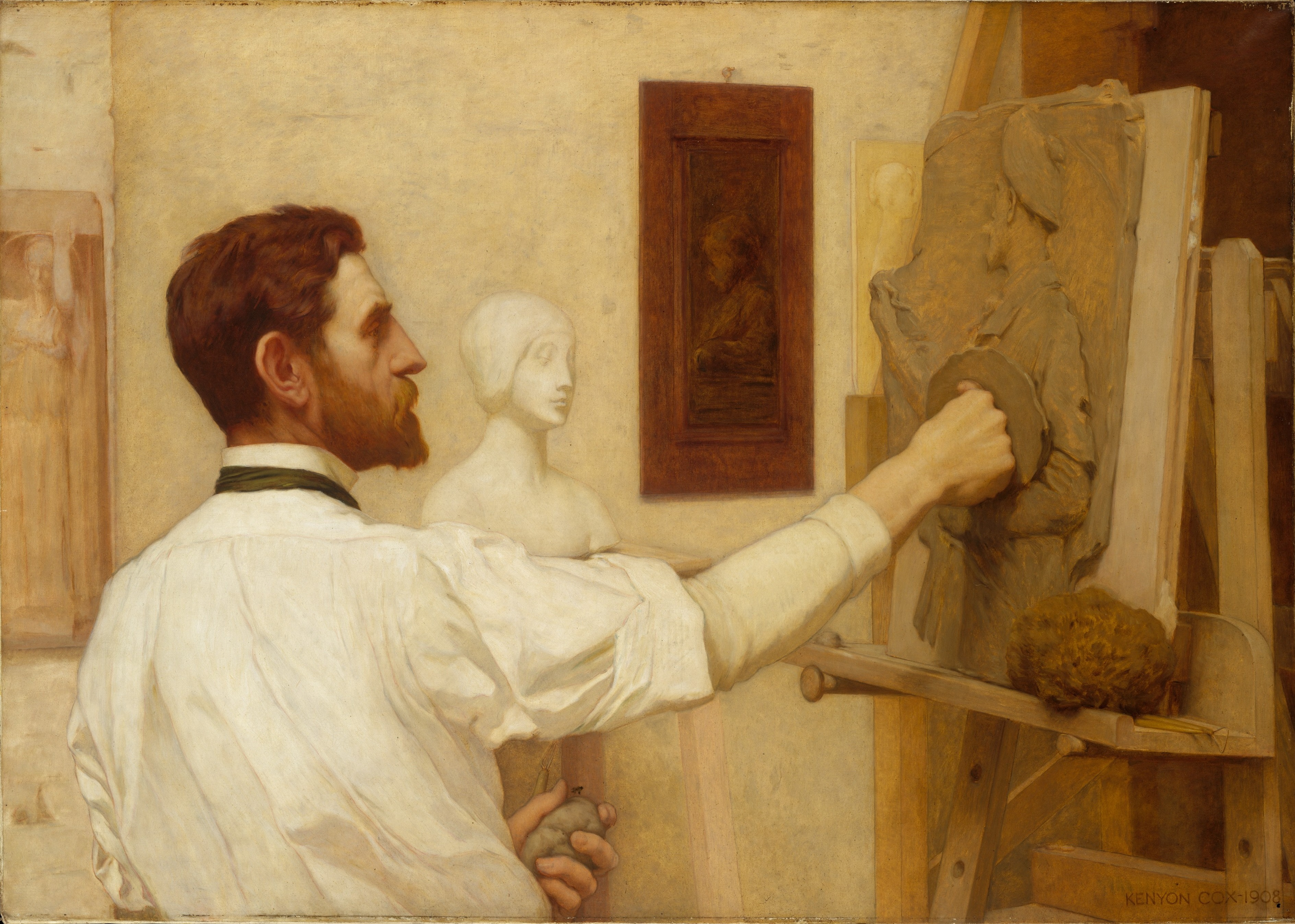 Cox and Augustus Saint-Gaudens (1848–1907) met in Paris in the 1870s and exchanged portraits in 1887: an oil painting for a bronze relief. The original canvas was lost in Saint-Gaudens’s 1904 studio fire, so Cox created this replica in time for the Metropolitan Museum’s 1908 memorial exhibition of the sculptor’s work.